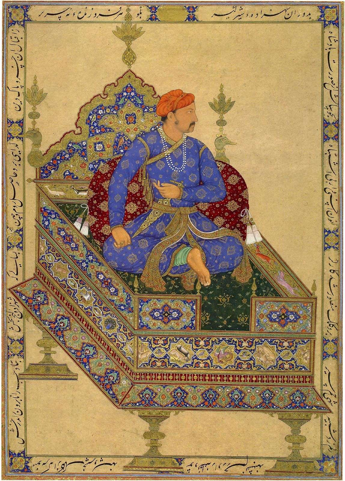 Prince Salim, the future Jahangir, enthroned; a painting c.1600 Source: ebay, July 2012